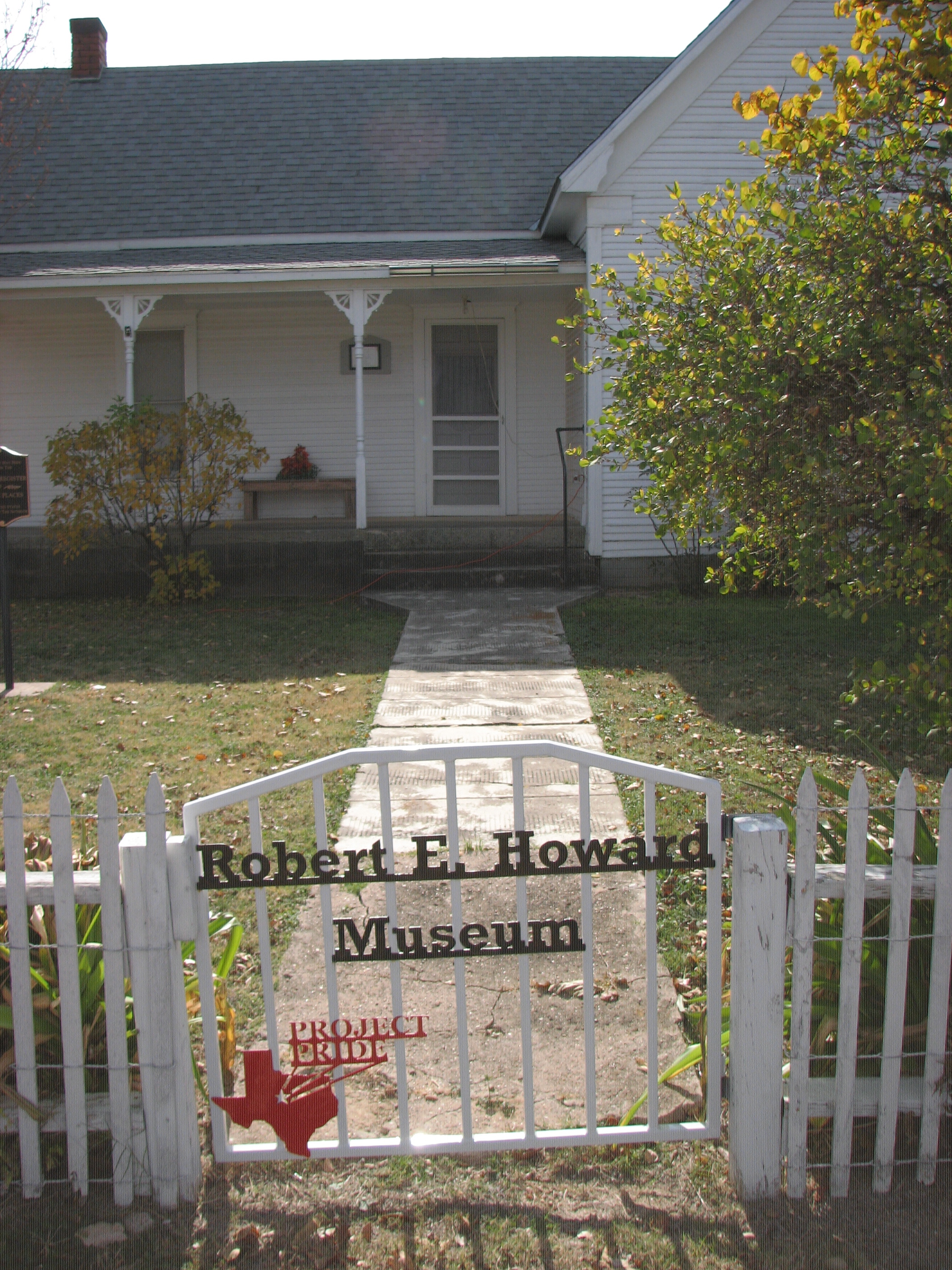 The Robert E. Howard Museum, the former home of Robert E. Howard.